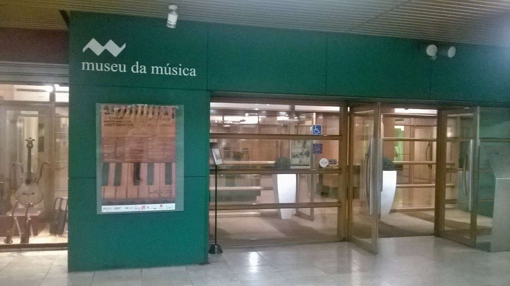 Museu da Música in Lisbon, main entrance from the Alto dos Moinhos underground station